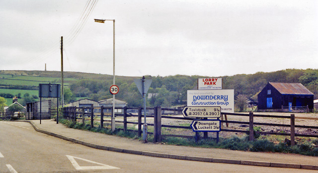 Site of Callington Station, near to Kelly Bray, Cornwall, Great Britain. View eastward, towards Bere Alston and Plymouth; ex-LSW (PD&SWJ) terminus of the branch from Bere Alston. Originally 'Kelly Bray', at which locality it was sited (1� miles from Callington). The station was closed on 7/11/66 with the line west from Gunnislake, but is planned to be reopened by a local Heritage Group.